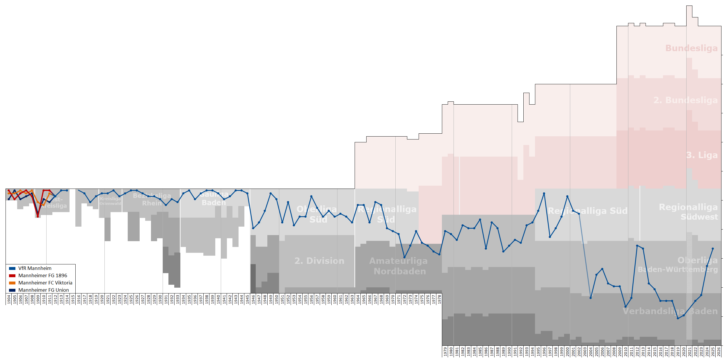 Chart of end-season table positions of VfR Mannheim in the football league system of Germany. Data source: RSSSF, wikipedia, f-archiv.de, fussball.de